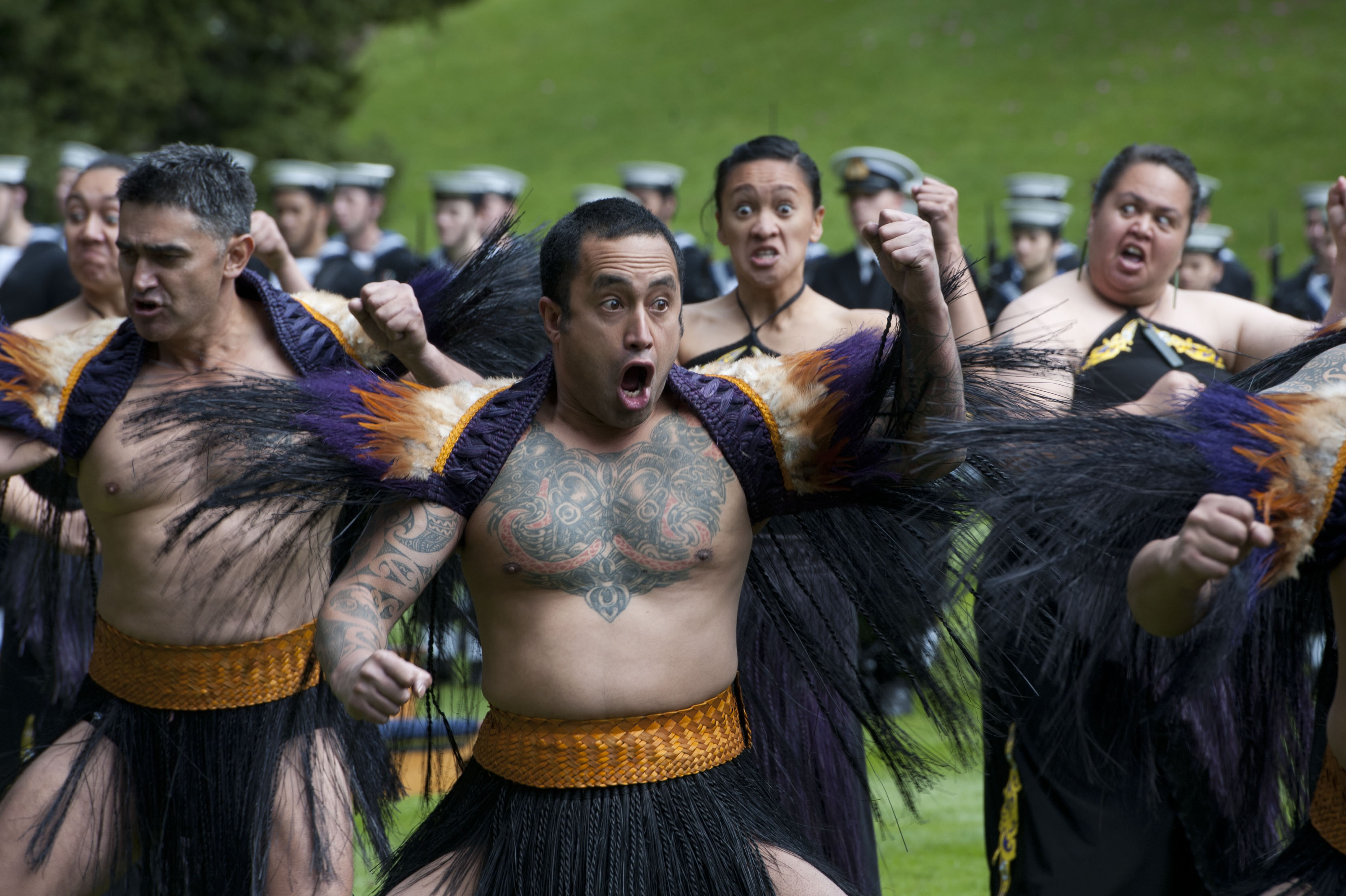 Maori warriors perform a Haka, meaning dance of welcome, for Secretary of Defense Leon E. Panetta during a Powhiri ceremony while visiting Auckland, New Zealand Sept. 21, 2012. The ceremony is an ancient Maori tradition used to determine if visitors came in peace or with hostile intent.